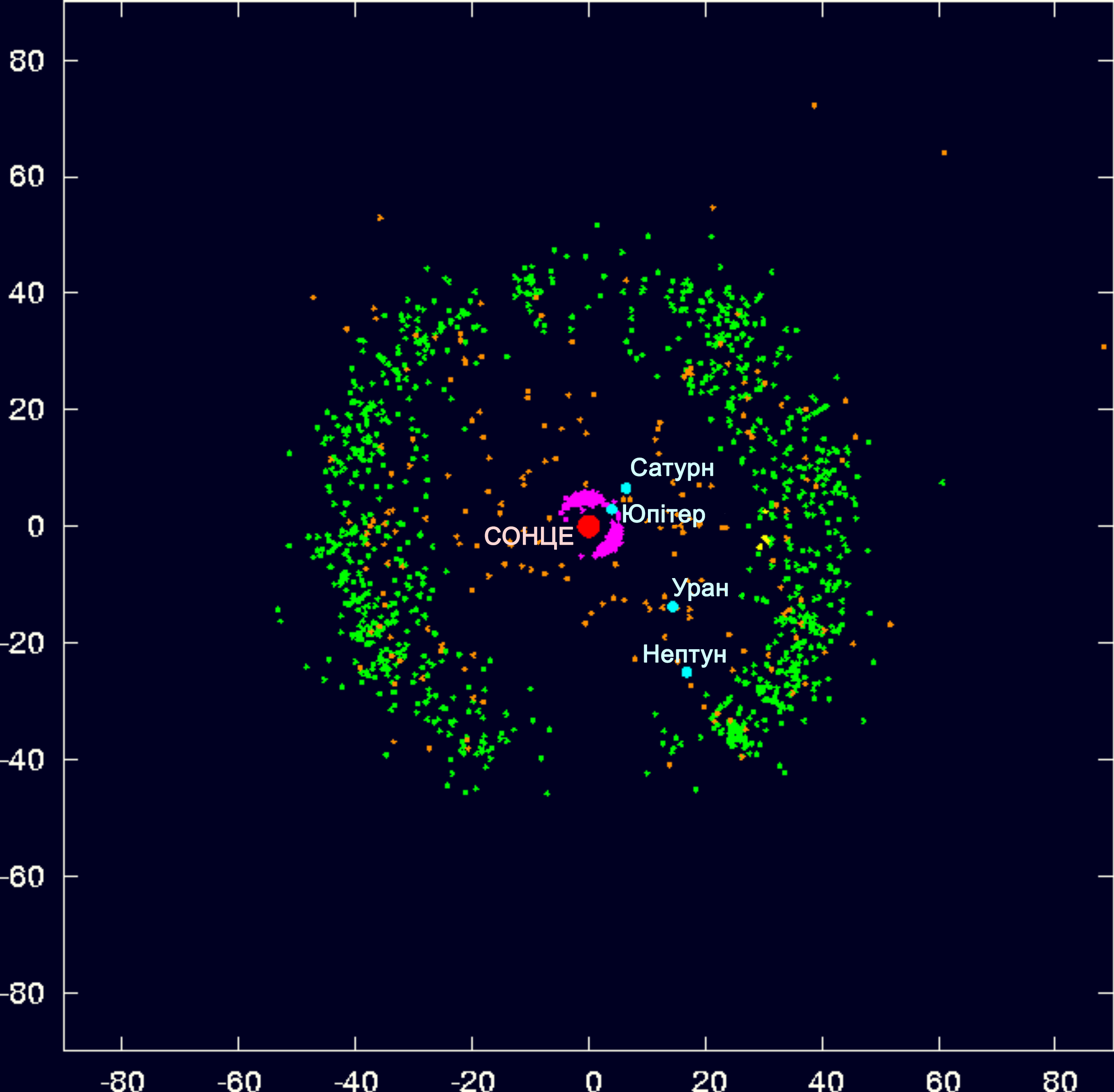 See below (description taken from the original file). Translation of File:Outersolarsystem objectpositions labels comp.png as a request from ukr Graphics Lab.